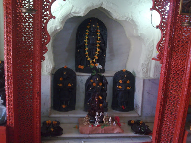 Ram Panchayatan at Takali